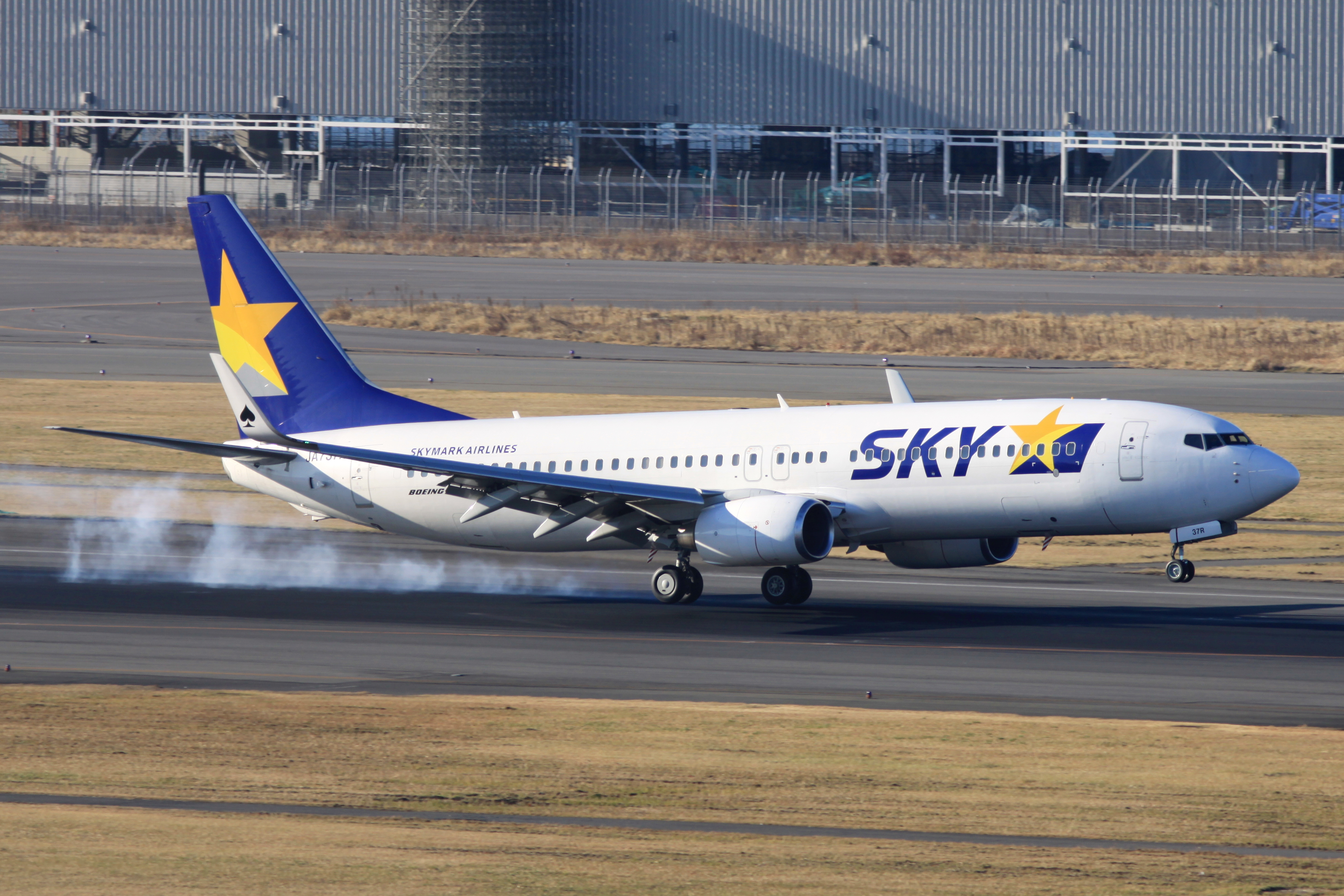 Tokyo International Airport, Runway 34L Boeing 737-86N, c/n:35630 Skymark Airlines